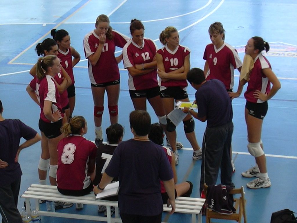 Cajasur Cordoba volleyball team 2005 in Haro Tournament (Spain)